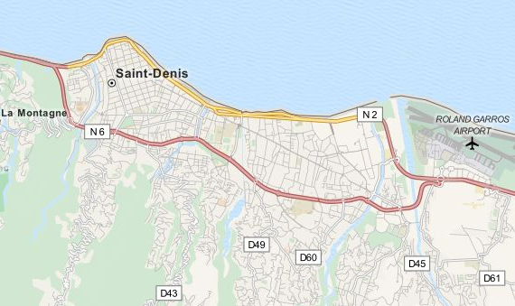 View on the north and south ring road of Saint-Denis, ine the Réunion french island, in south-wester Indian Ocean.